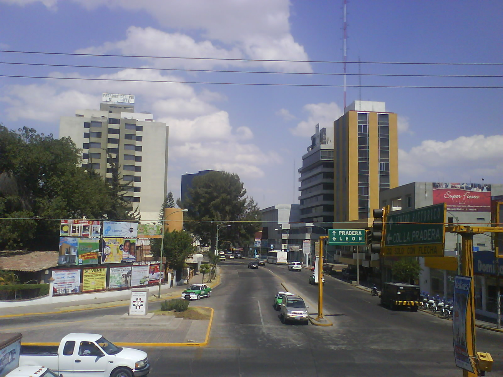 Panoramic view of the zone gilded of Irapuato, taken from the bridge of Saint José.